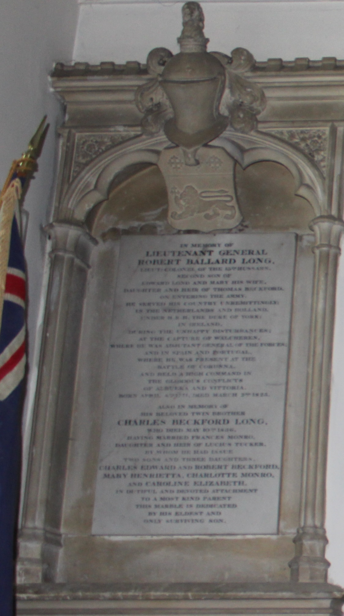 Robert Ballard Long memorial, Seale Church, Surrey